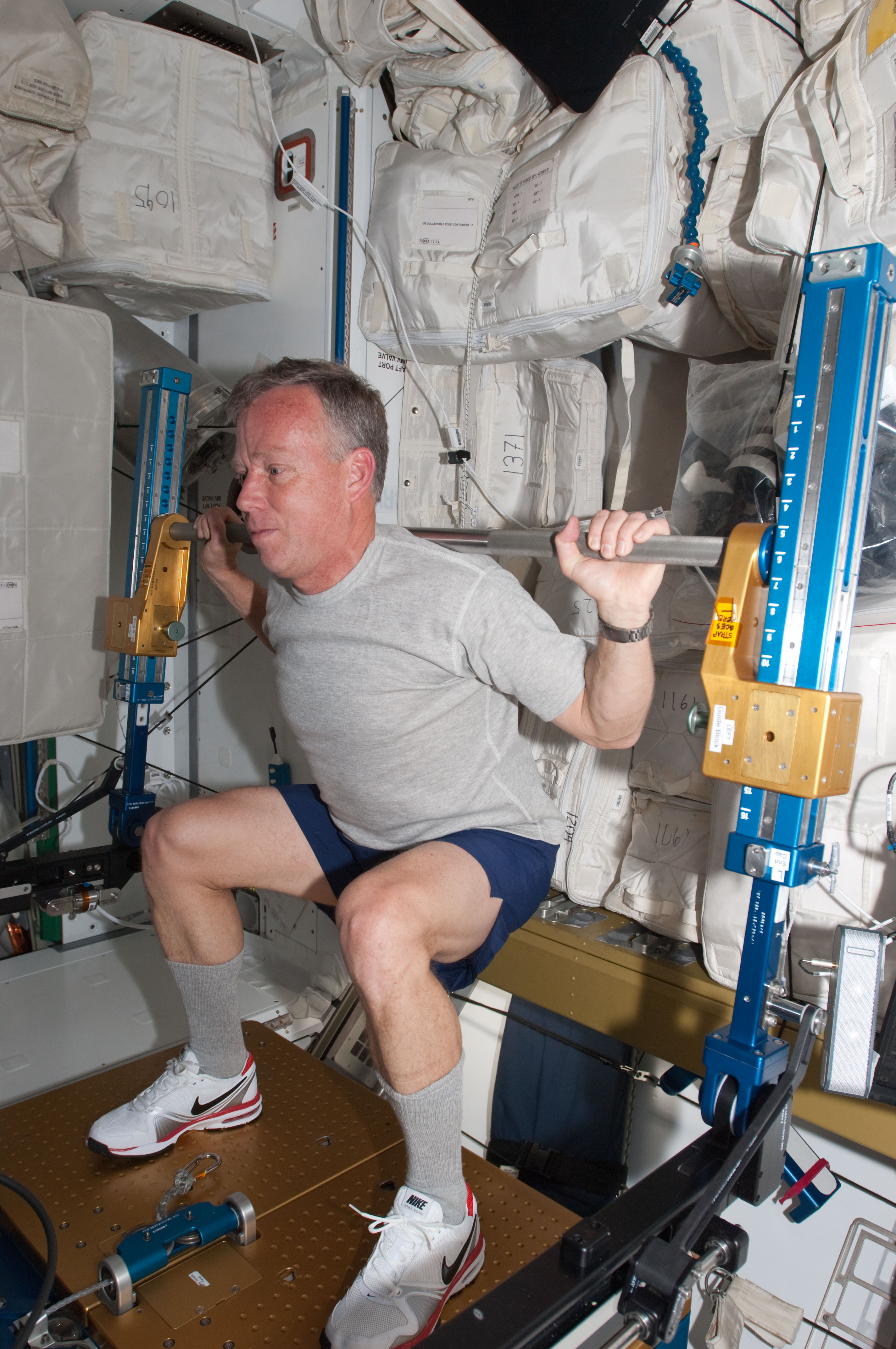 NASA astronaut Steve Lindsey, STS-133 commander, exercises using the advanced Resistive Exercise Device (aRED) in the Tranquility node of the International Space Station while space shuttle Discovery remains docked with the station.